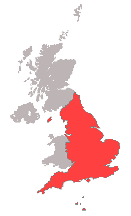 The Football Association’s jurisdiction